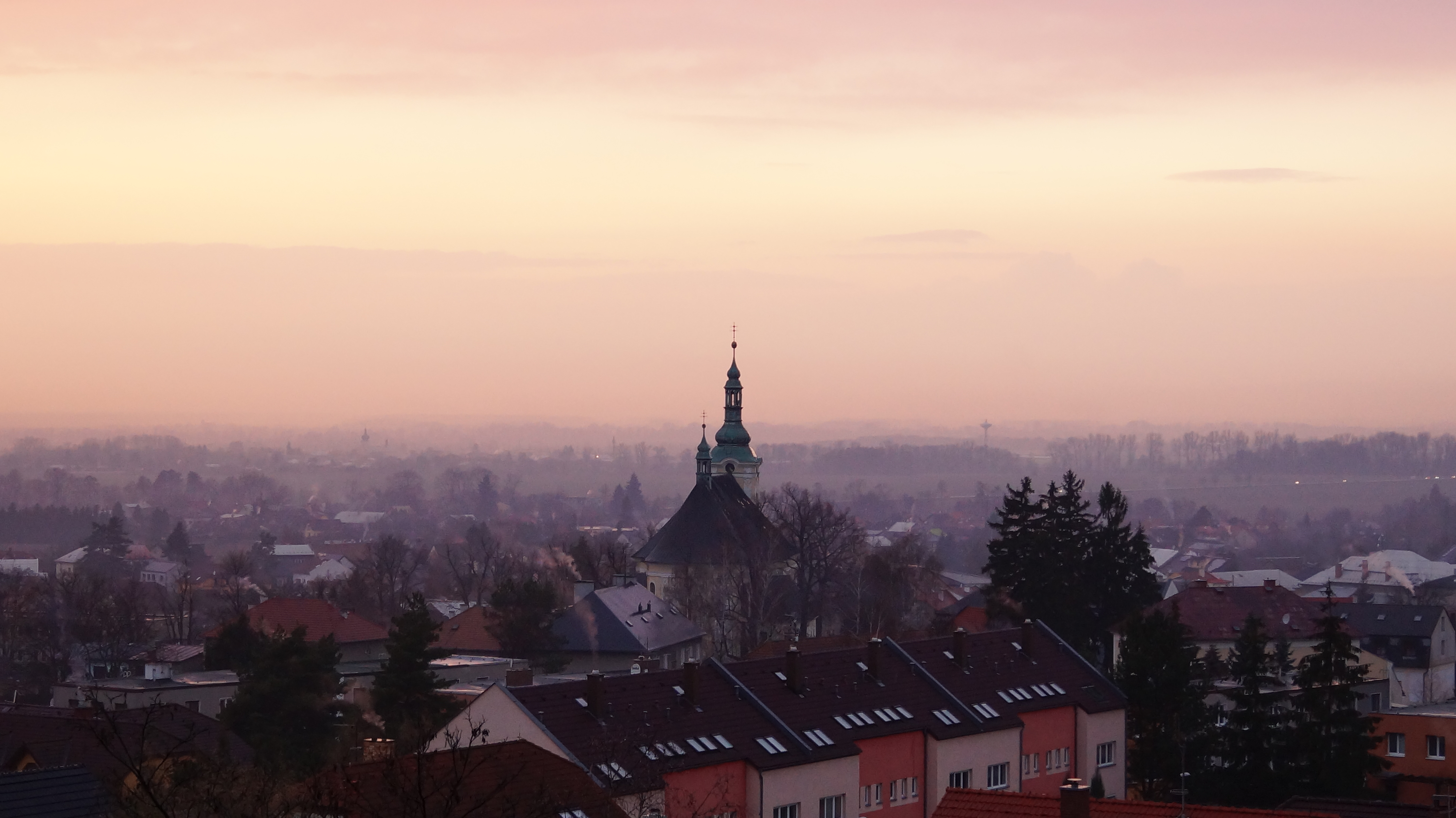 Church of Saint Matthew, Dolany u Olomouce